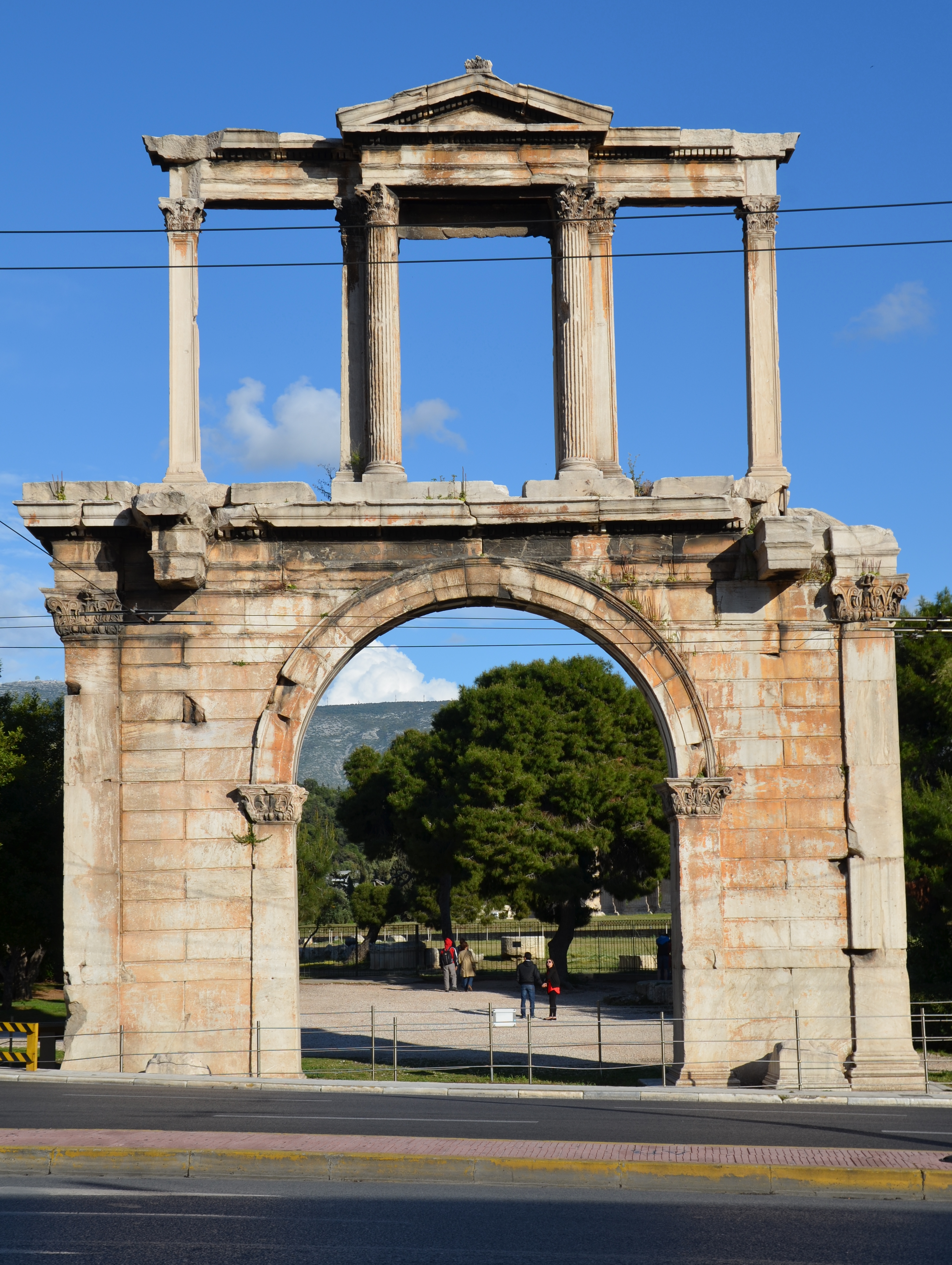 On the northwest side (towards the Acropolis), the inscription was: ΑΙΔ' ΕIΣΙΝ ΑΘΗΝΑΙ ΘΗΣΕΩΣ Η ΠΡΙΝ ΠΟΛΙΣ (this is Athens, the ancient city of Theseus).